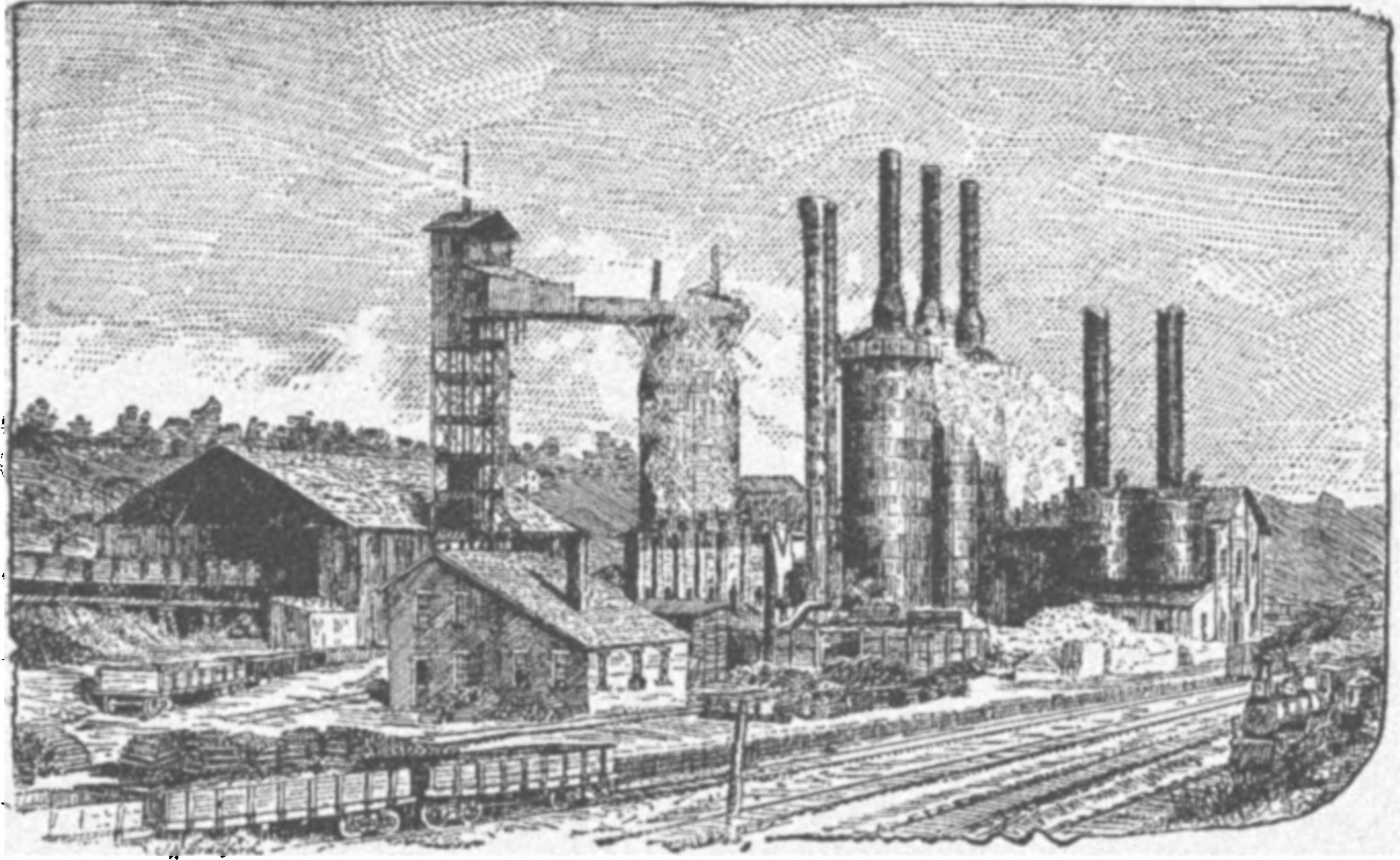 Title: Historical Collections of Ohio: An Encyclopedia of the State ; History Both General and Local, Geography with Descriptions of Its Counties, Cities and Villages, Its Agricultural, Manufacturing, Mining and Business Development, Sketches of Eminent and Interesting Characters, Etc., with Notes of a Tour over It in 1886 V 2 Year: 1891 (1890s) Authors: Howe, Henry, 1816-1893 Subjects: Ohio -- Biography Ohio -- History Ohio -- Local History Ohio -- Description and travel Publisher: Columbus : Henry Howe & Son View Book Page: Book Viewer About This Book: Catalog Entry View All Images: All Images From Book Click here to view book online to see this illustration in context in a browseable online version of this book. Text Appearing Before Image: ry of Mahoning county, Mr. David Loveland gives a sketch ofthe beginning of the manufacture of iron in the Mahoning valley, an industrywhich has created a city almost continuous for a score of miles along the stream. It was commenced by two brothers, James and Daniel Heaton, men of enter-prising and experimenting disposition. In 1805 or 1806 they erected a furnaceon Yellow Creek, near Mahoning river, about five miles southeast of Youngs-town, which soon went into active operation. Connected with and belonging tothe furnace proper were about one hundred acres of well-timbered land whichsupplied the charcoal and much of the ore for the works. It was called theHeaton furnace. The blast was produced by an apparatus of peculiar construc-tion and was similar in principle to that produced by the column of water ofthe early furnaces. After this furnace had been in operation for some time, James Heaton trans-ferred his interest to his brother Daniel, and built the second furnace in this valley Text Appearing After Image: Brier Hill Furnace.